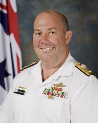 Stuart Campbell Mayer as Royal Australian Navy Combined Forces Maritime Component Commander during RIMPAC 2012